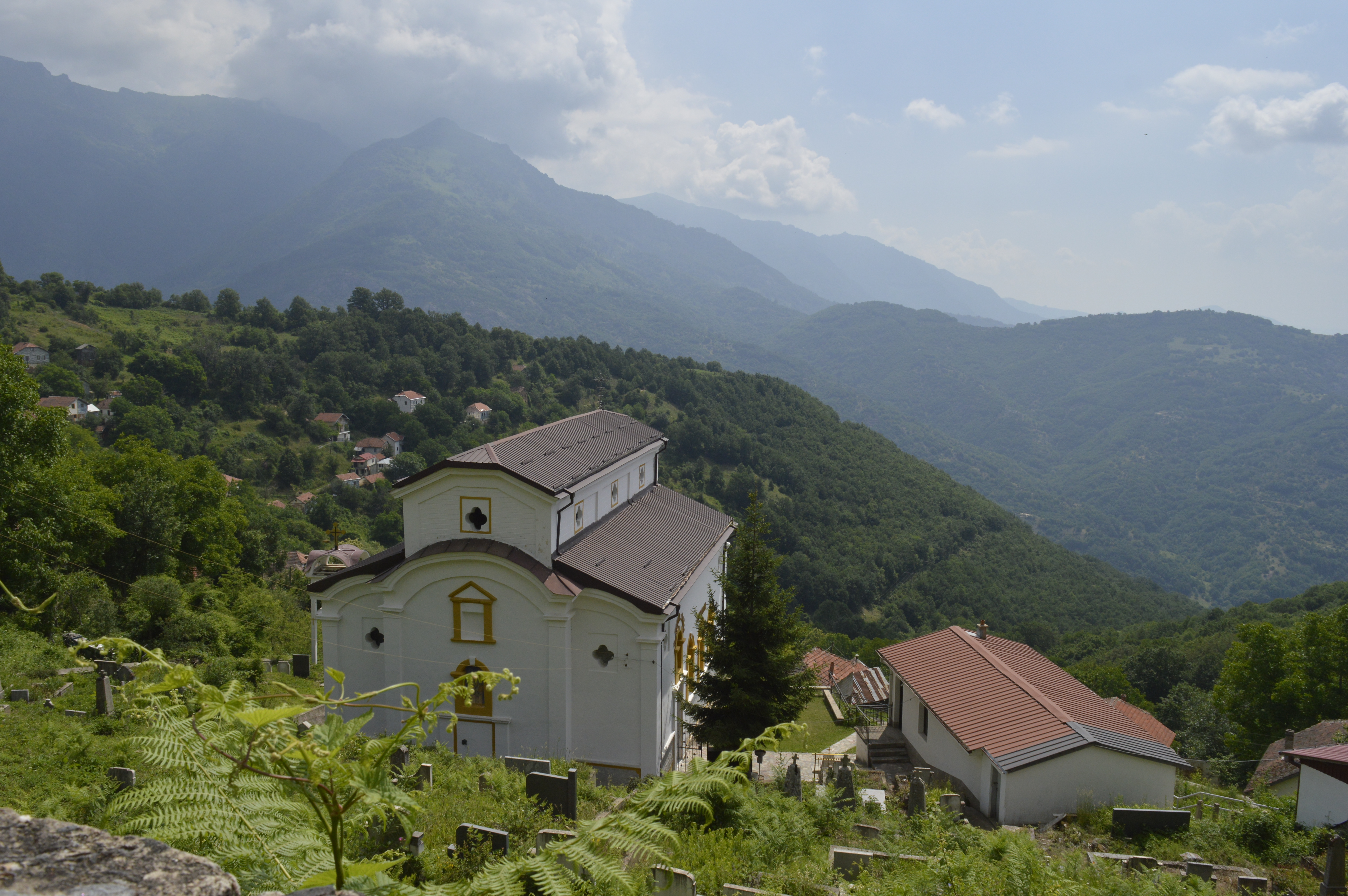 View of the Sts. Peter and Paul Church in the village Papradište